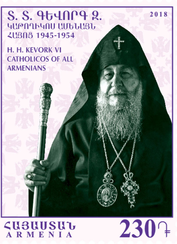 150th anniversary of the 129th Catholicos of All Armenians Kevork VI Chorekchian